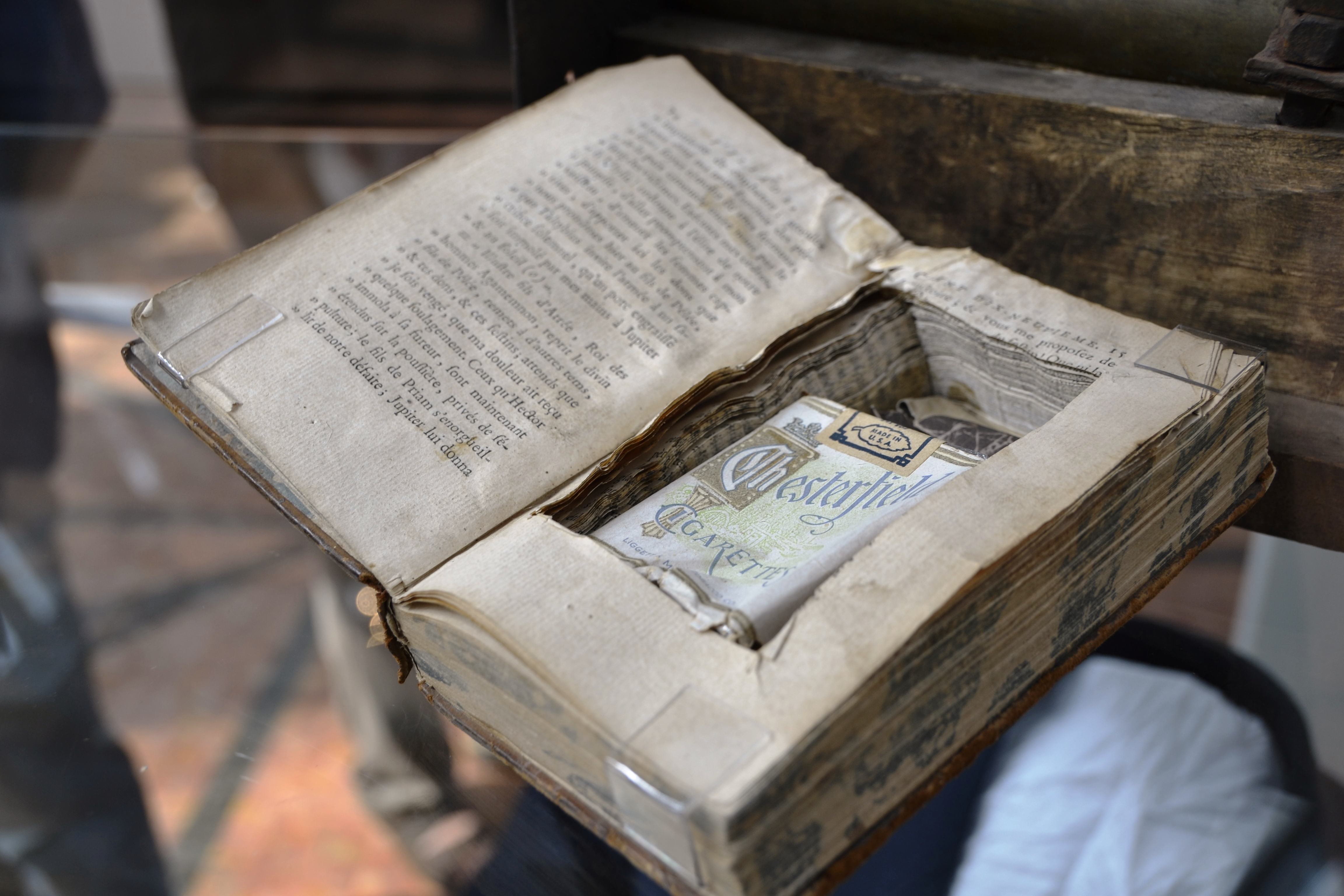 Cigarette smuggling with a book. This exhibit was on display in the main customs office in Munich.